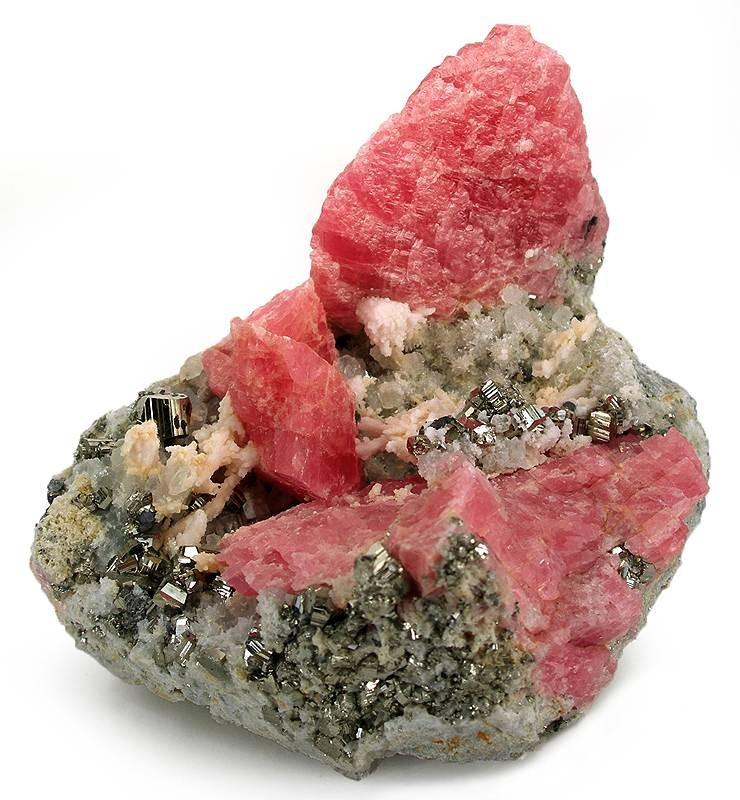 Rhodochrosite, Pyrite, Calcite (Var.: Manganoan Calcite), Quartz Locality: Wutong (Wudong) Mine, Liubao ("Babu"), Cangwu County, Wuzhou Prefecture, Guangxi Zhuang Autonomous Region, China (Locality at ) Size: 13.0 x 9.6 x 7.3 cm. This very large China rhodochrosite specimen has huge crystals to 5.25 cm, perched on contrasting matrix of quartz. The matrix also has pyrites and manganoan calcites speckled about for contrast. This is a large piece, impressive in display, and very colorful.